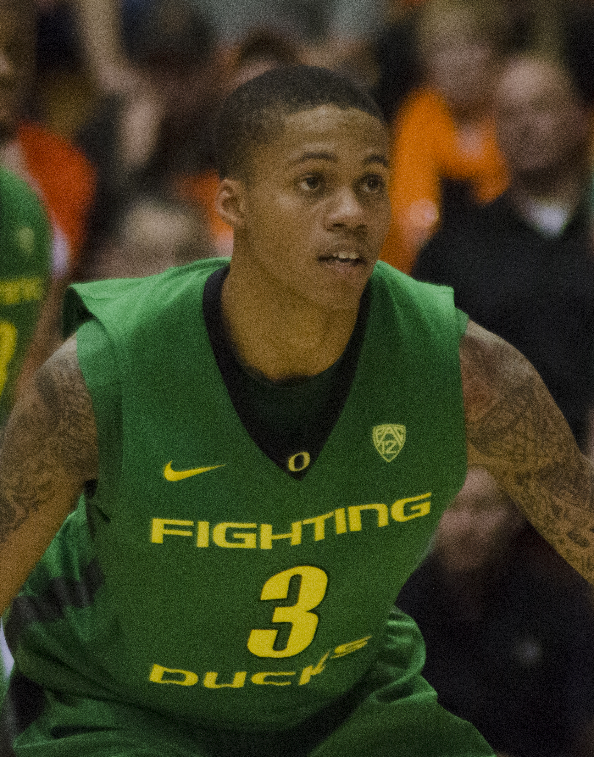 Joseph Young of Oregon Ducks